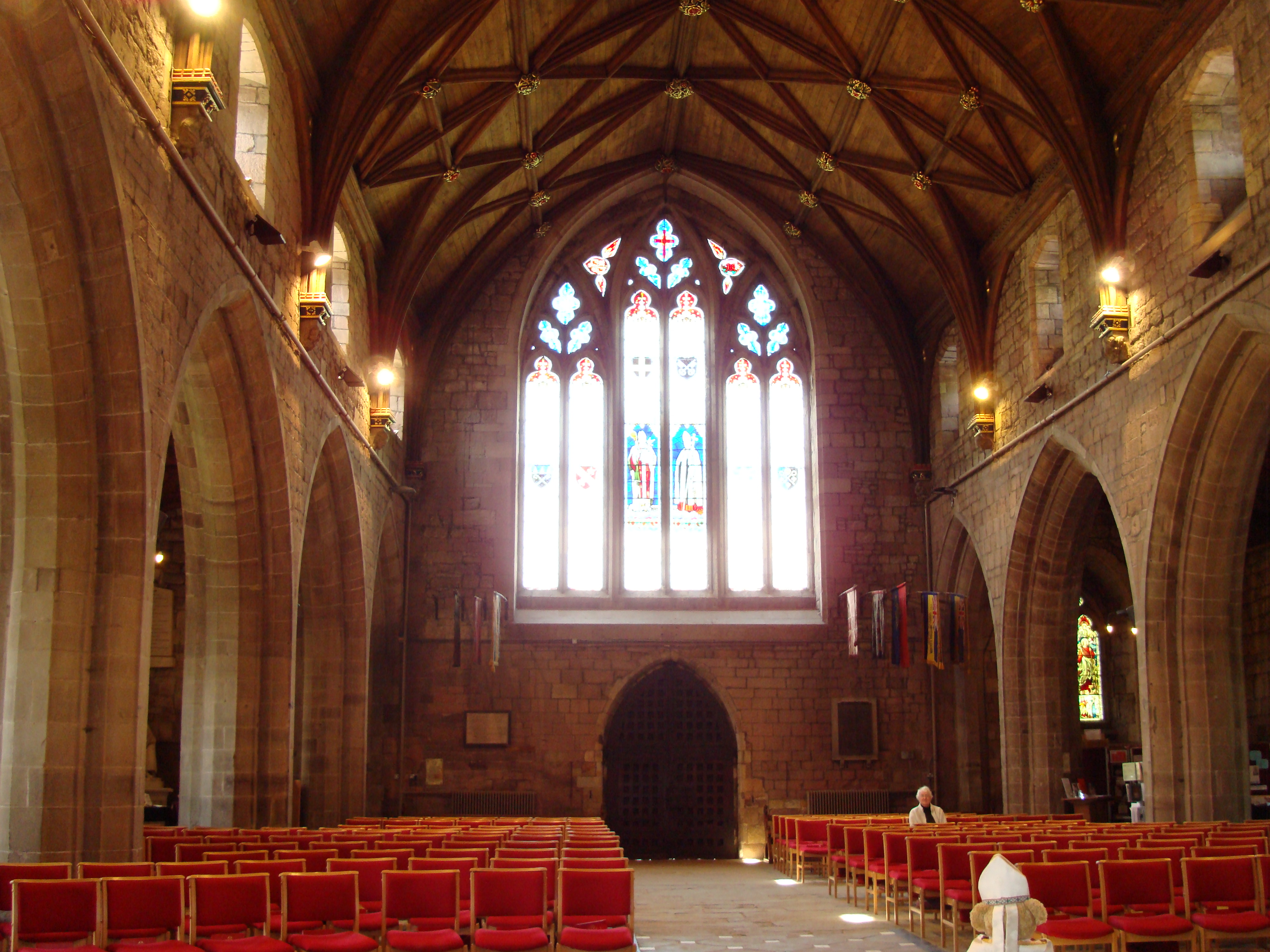 Photograph of St Asaph Cathedral, Wales - interior, Nave and East End